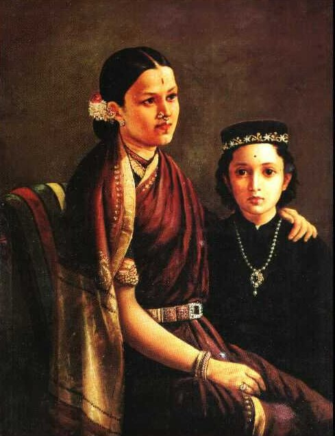 Picture of Mrs. Ramanadha Rao and son.